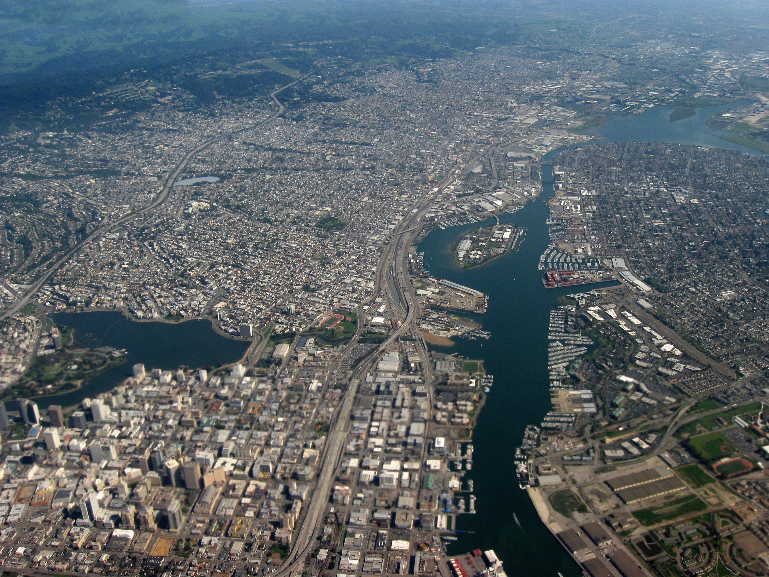 Aerial view of city of Oakland, California. Lakeside Park, Lake Merritt in left center, Laney College to the right of that, Interstate 880 and Oakland Inner Harbor Channel running up middle, Government Island just right of center.